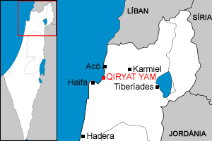 Localization of Qiryat Yam within Israel.